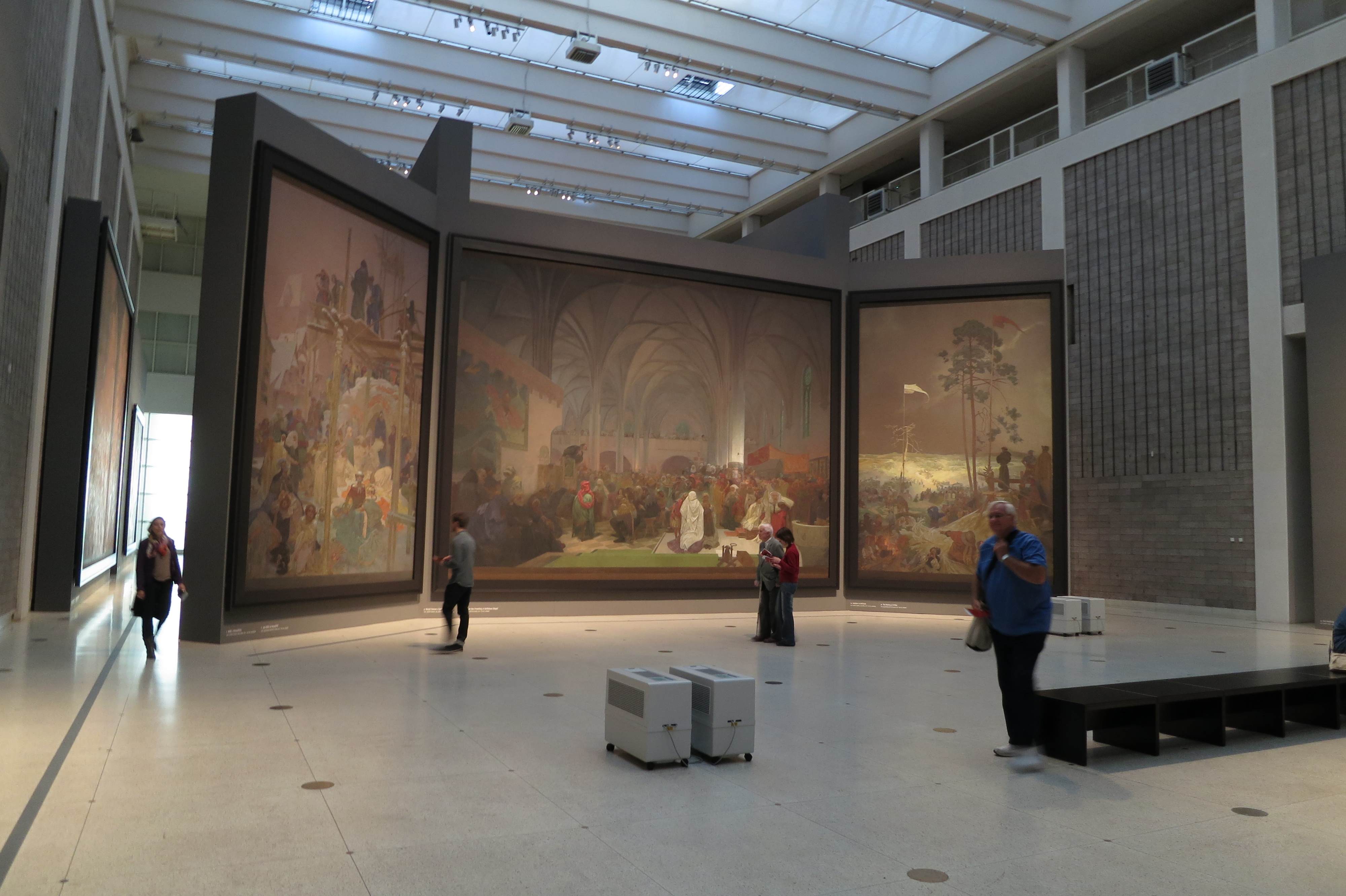 Central part of Slav Epic in Veletržní palác, Prague.